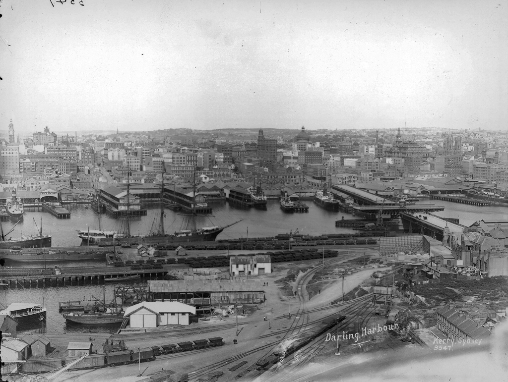 Format: Glass plate negative. Repository: Tyrrell Photographic Collection, Powerhouse Museum Part Of: Powerhouse Museum Collection General information about the Powerhouse Museum Collection is available at Persistent URL: [1] Acquisition credit line: Gift of Australian Consolidated Press under the Taxation Incentives for the Arts Scheme, 1985